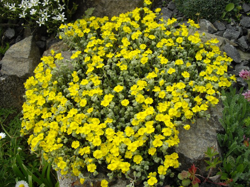 Helianthemum alpestre (Syn. Helianthemum oleandicum subsp. alpestre)